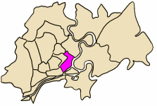 position of district 1 in an outline of the core area of HCMC (Ho Chi Minh City, Vietnam) - ISO code VN-F-HC. Keywords: map, outline, city, Ho Chi Minh City, HCMC, HCM, district 1, quan 1.